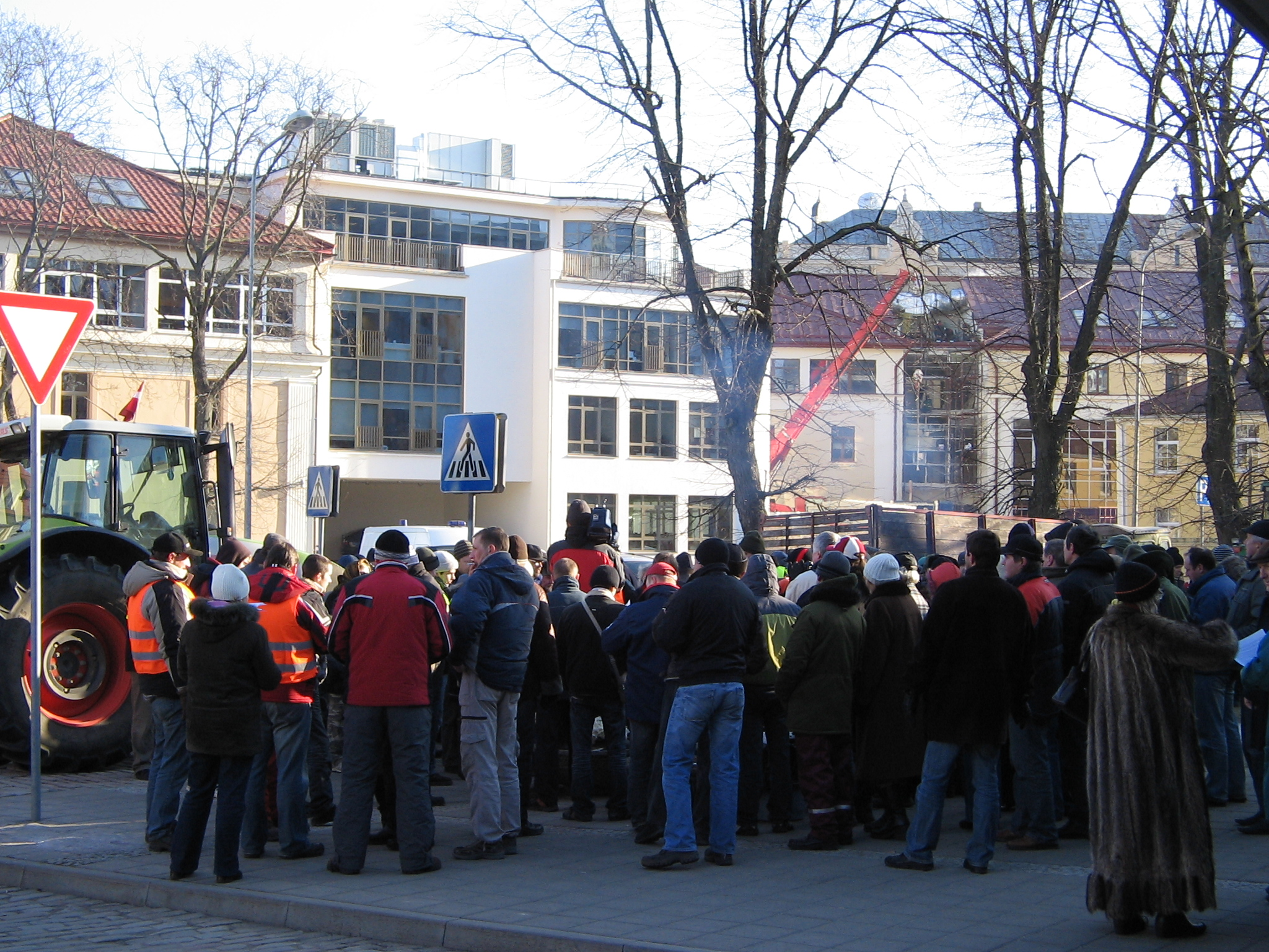 Farmers piquet in Riga